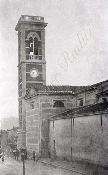 Il primo campanile